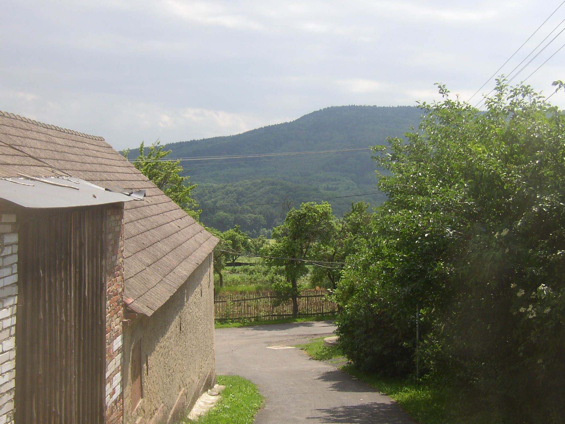 České středhoří, Czech Republic. Hradišťany (752 m) as seen from northeast, from village of Lukov.